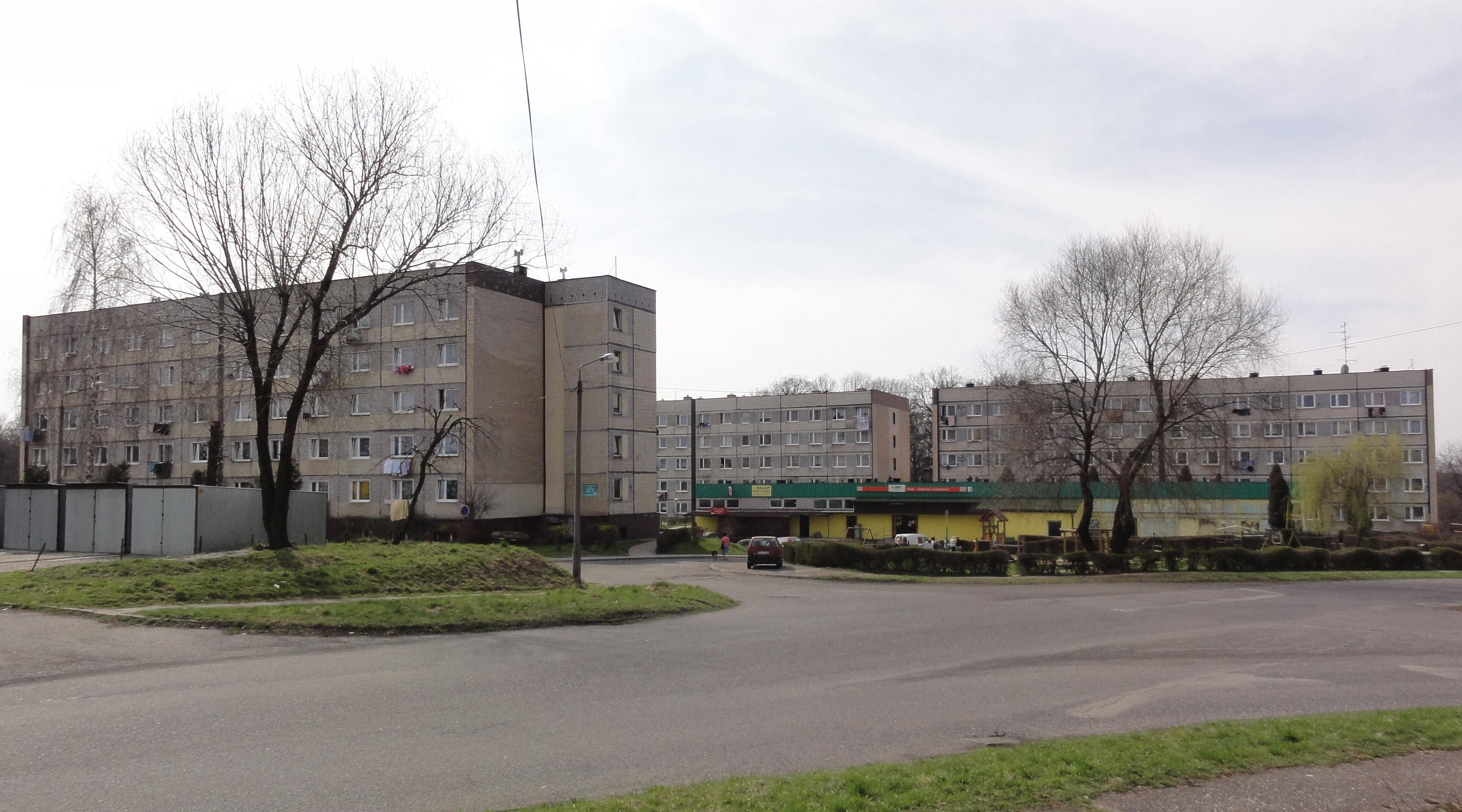 Housing estate in Kaczyce near former coal mine